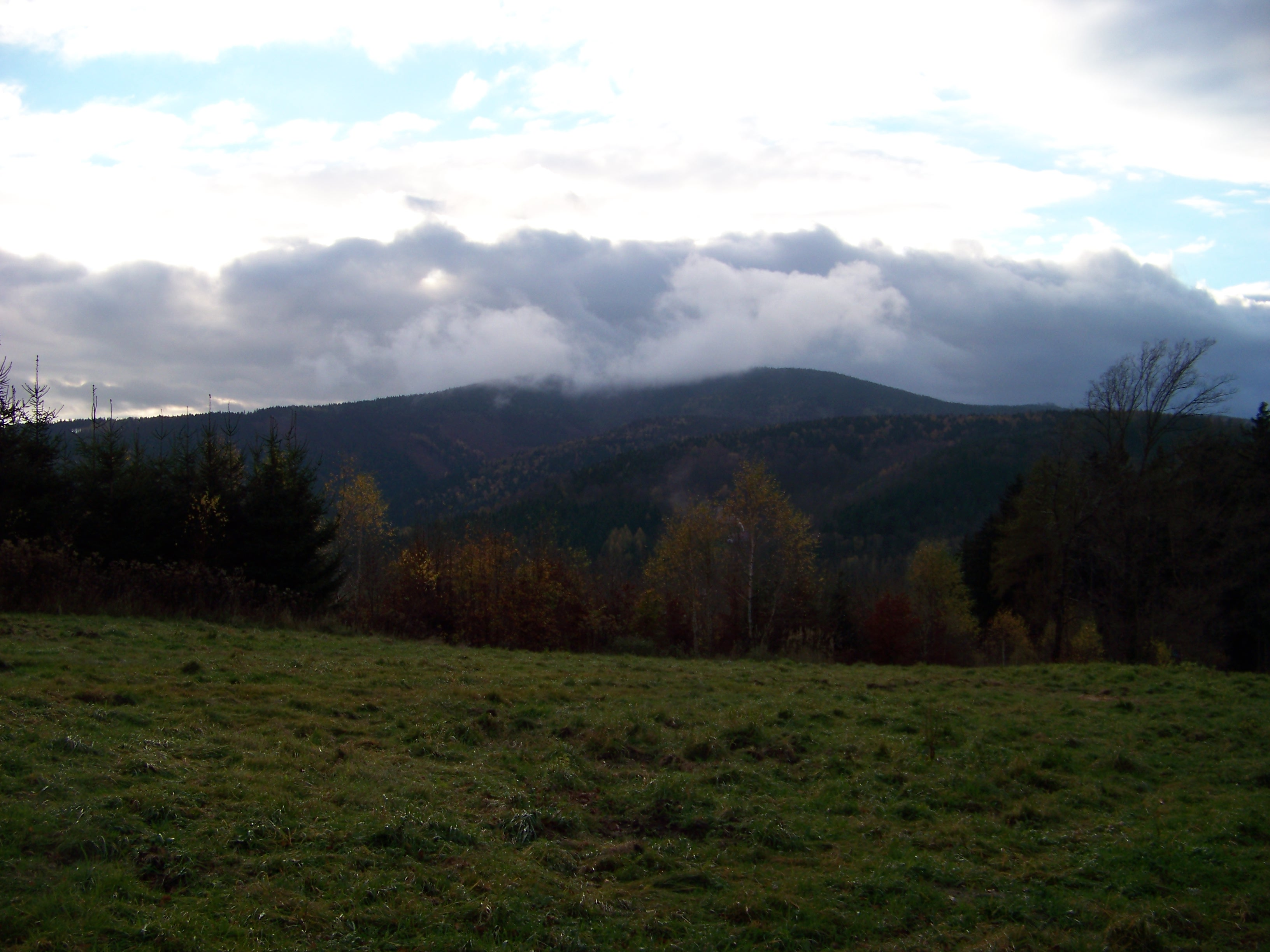 Liberec District, Liberec Region, Czech Republic. A view of Velký Vápenný hill (?) from Chrastava.